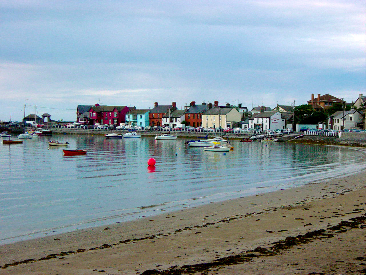 Brightly painted houses line the shore at Skerries harbour.